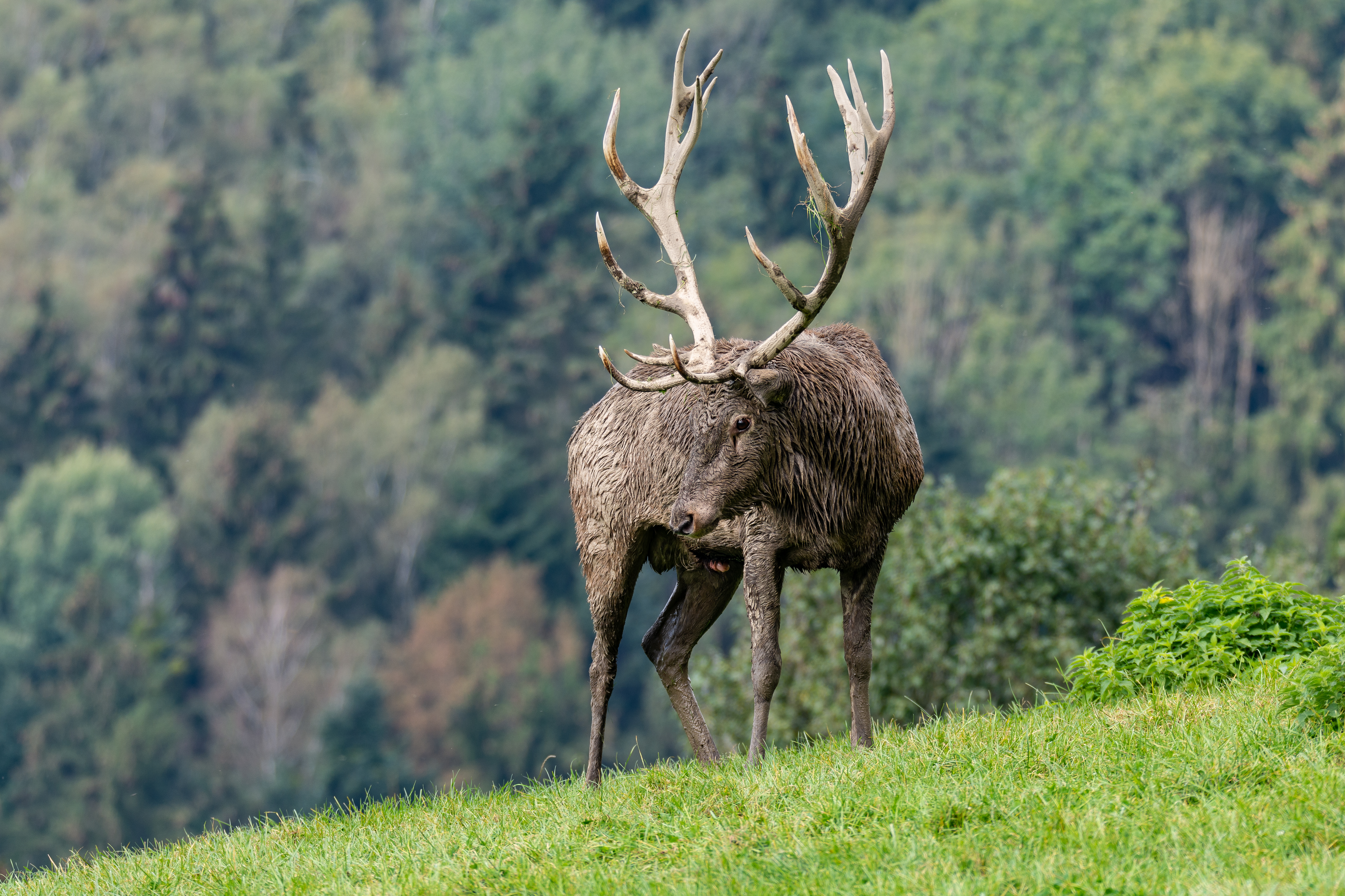 Red deer (Cervus elaphus) in the wildlife park of Altenfelden (Upper Austria)